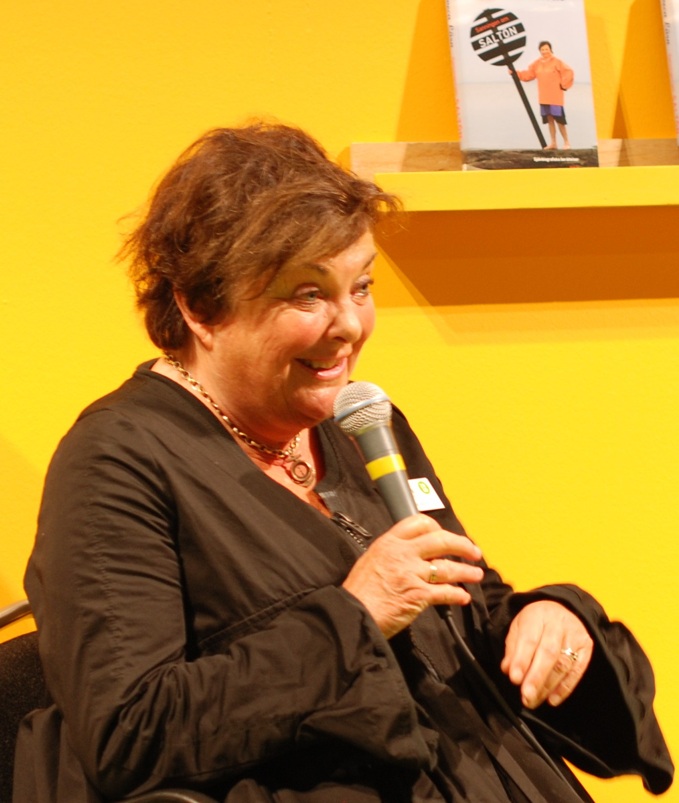 Swedish author Viveca Lärn at Göteborg Book Fair 2010